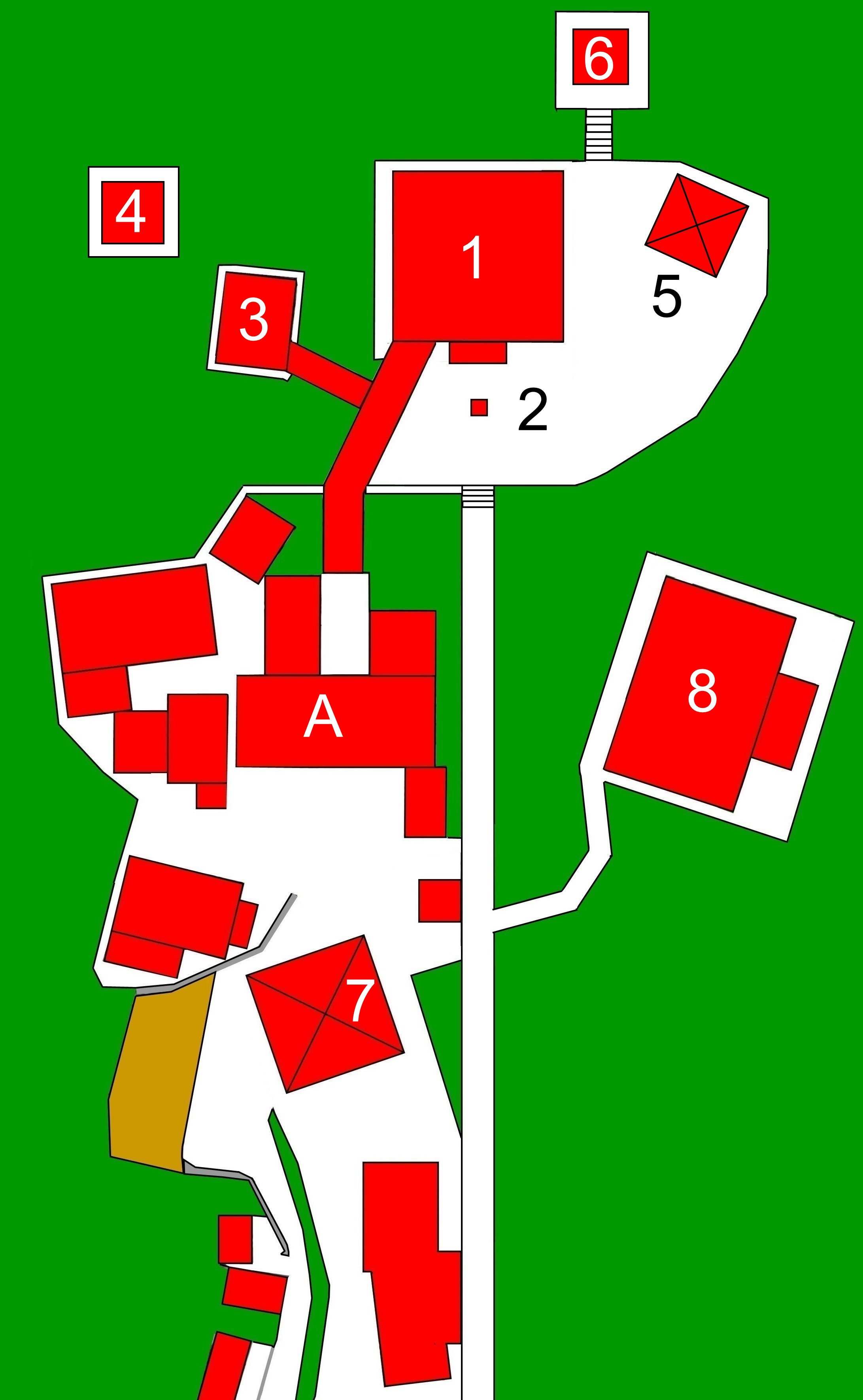 Layout of Kabusan-ji temple at Taktsuki, Osaka prefecture, Japan